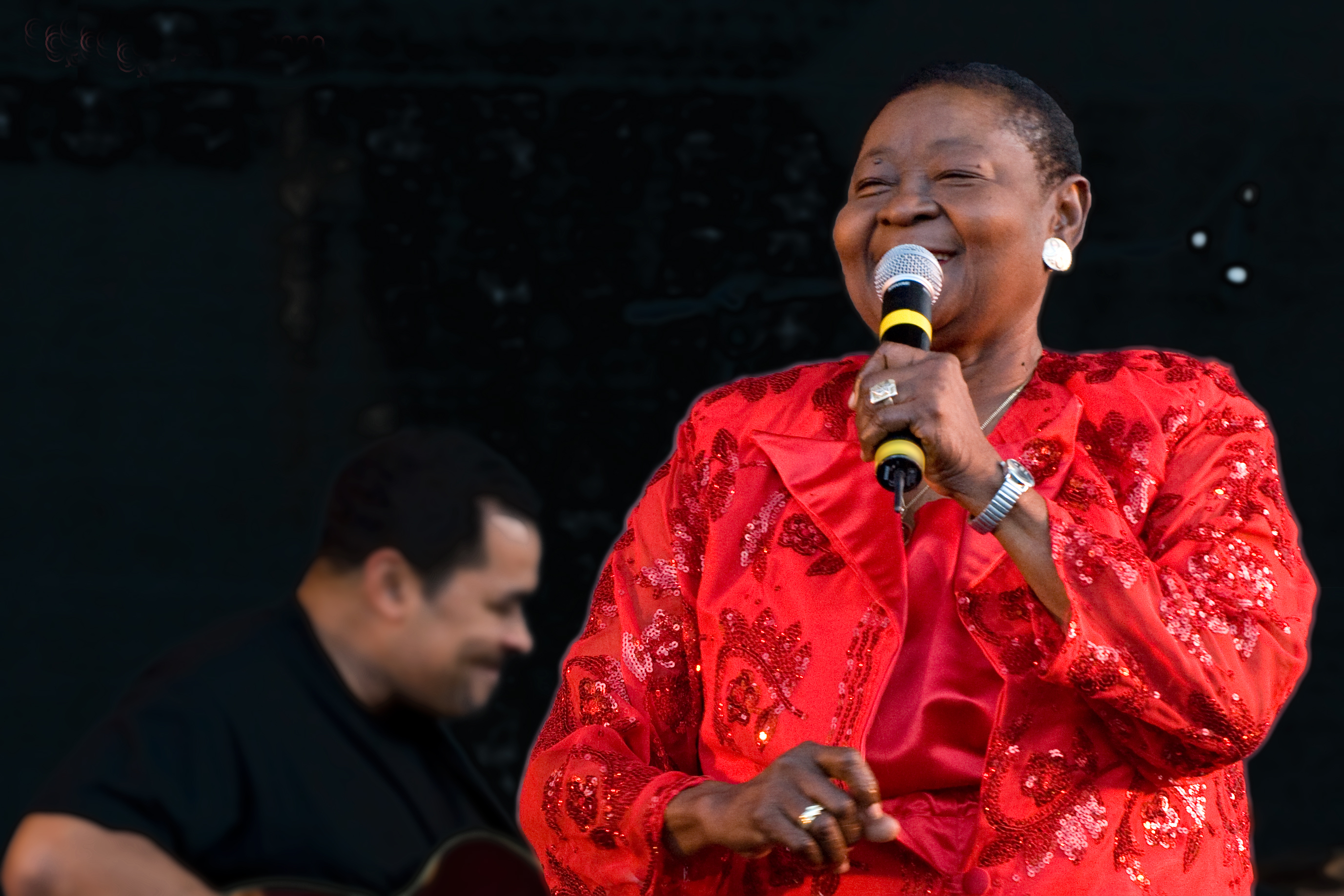 Calypso Rose singing (5875a) 26-07-09